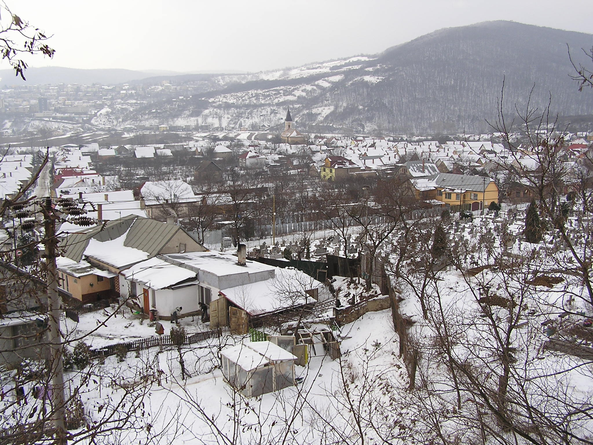 Whole view on Ťahanovce.